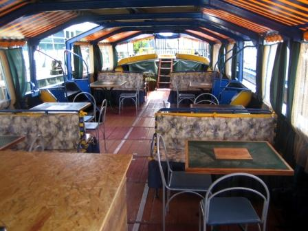 Нижня палуба після реконструкції